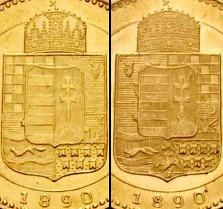 Coat of arms types on the 20 forint coins minted in 1890: left - without Fiume, right - with Fiume